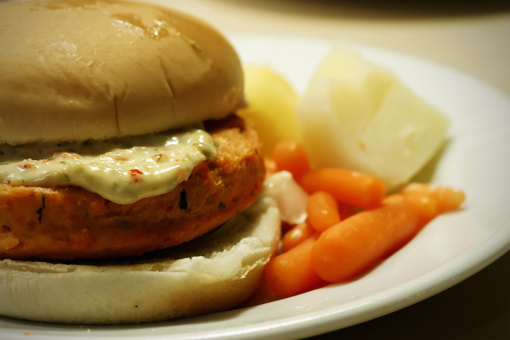 Salmon Patty Burger Ikea 11/11/2009